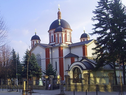 Image of Svetouspenjski Saborni Hram, City of Kragujevac